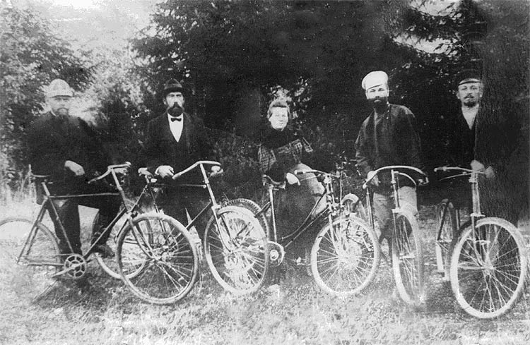 Doctor Aleksandr Bodrov, a member of the second Russian State Duma,in bicycle excursion (second from the left)